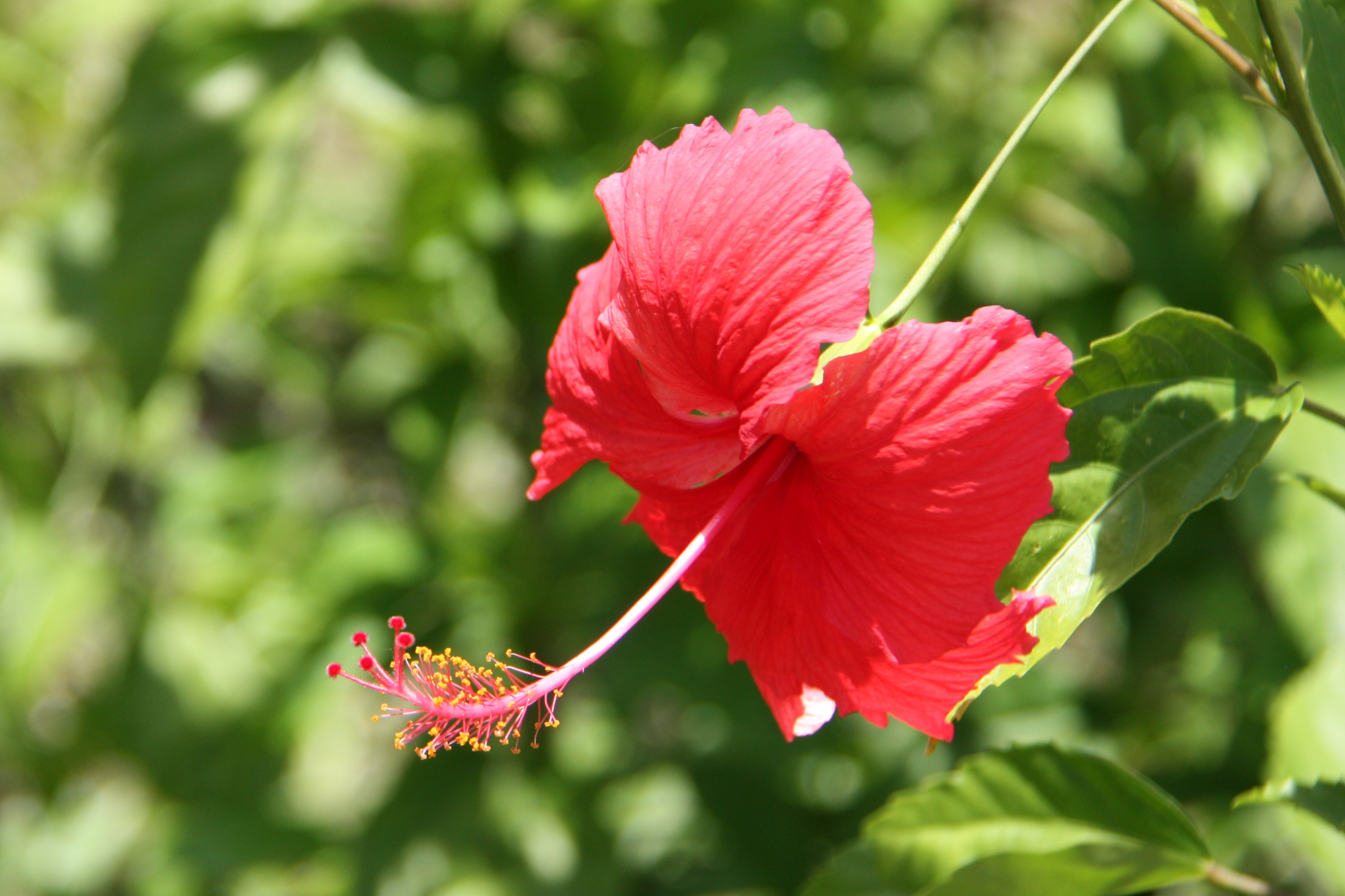 Táiběi Da-an District DàĀn Forest Park Hibiscus 'Psyche'